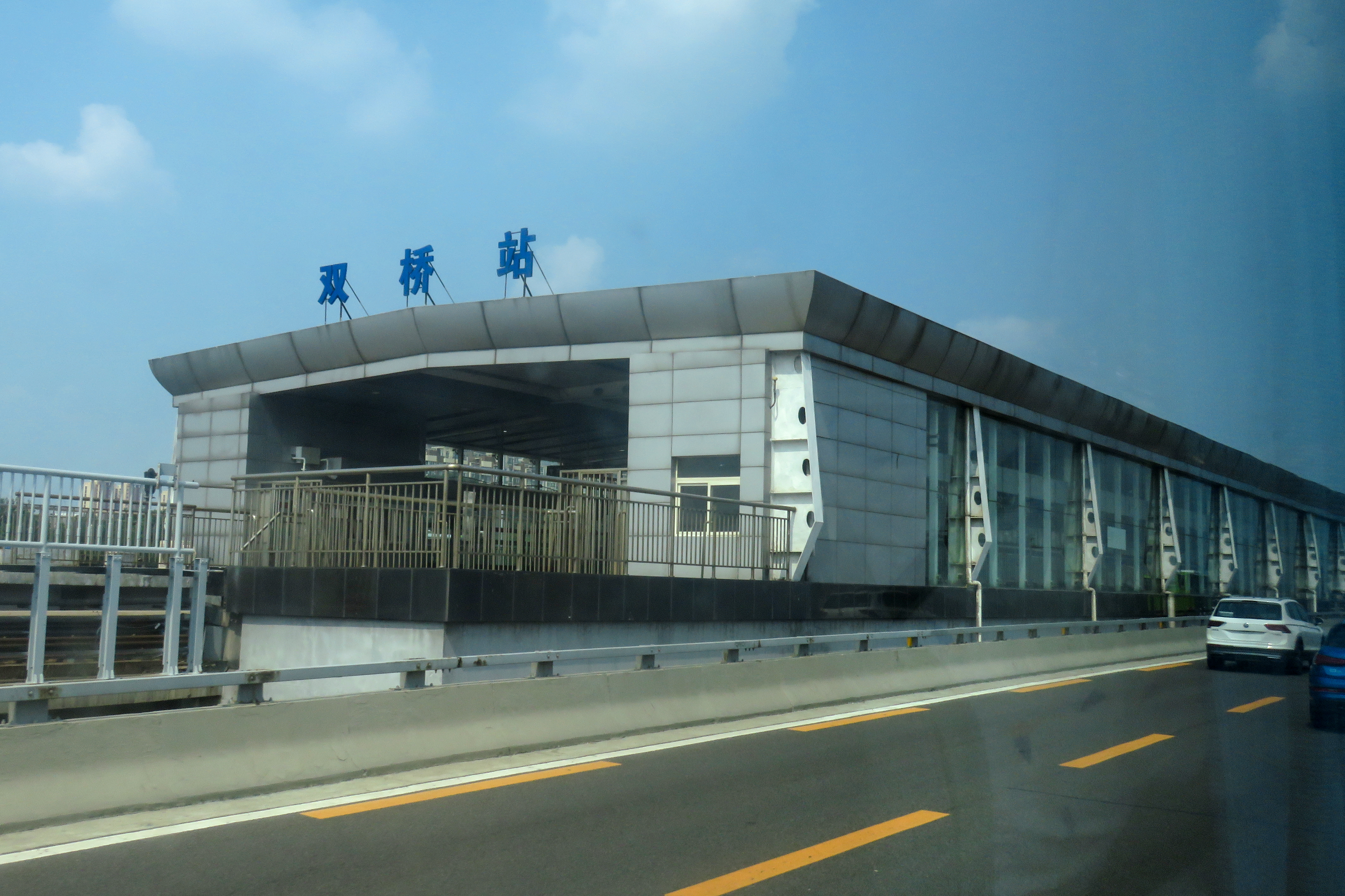 Should have opened the window!